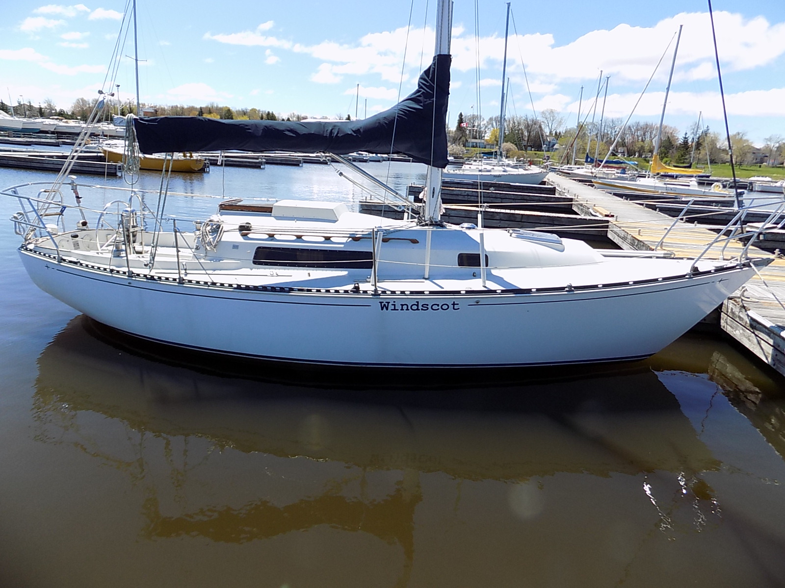 A C&C 27 Mk 4 sailboat named Windscot